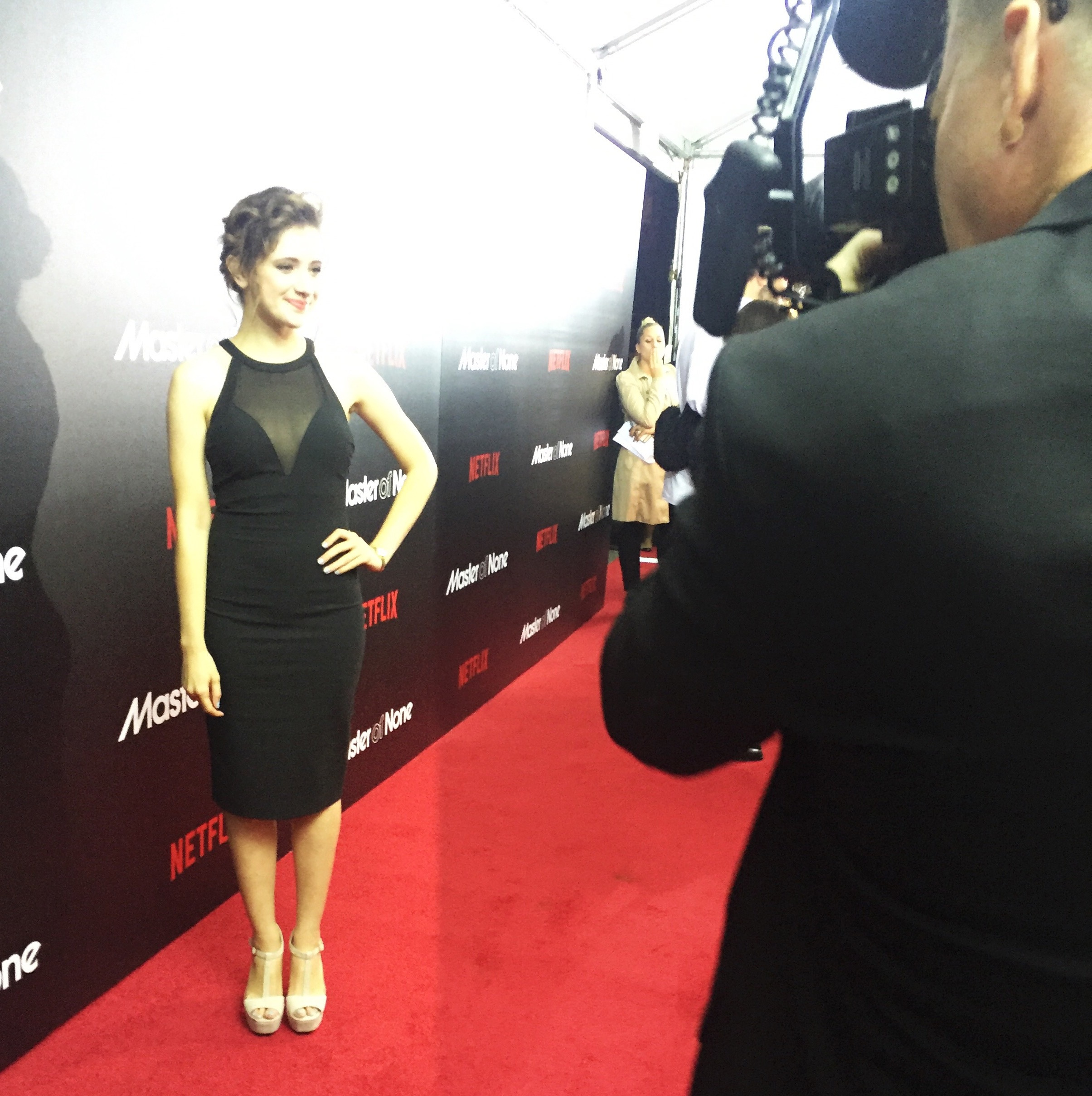 Noel Wells at the premier of Master of None